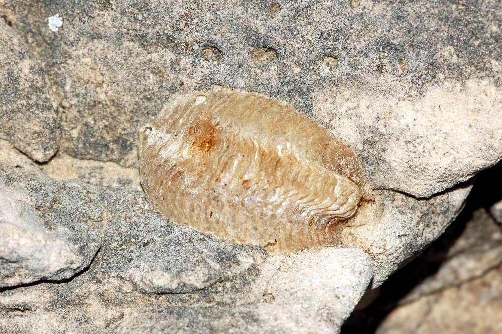 Egg pod of a mantid, 2 km North of Le Caylar, 43°51'N 03°19'E, 800mNN, Languedoc-Roussillon, France